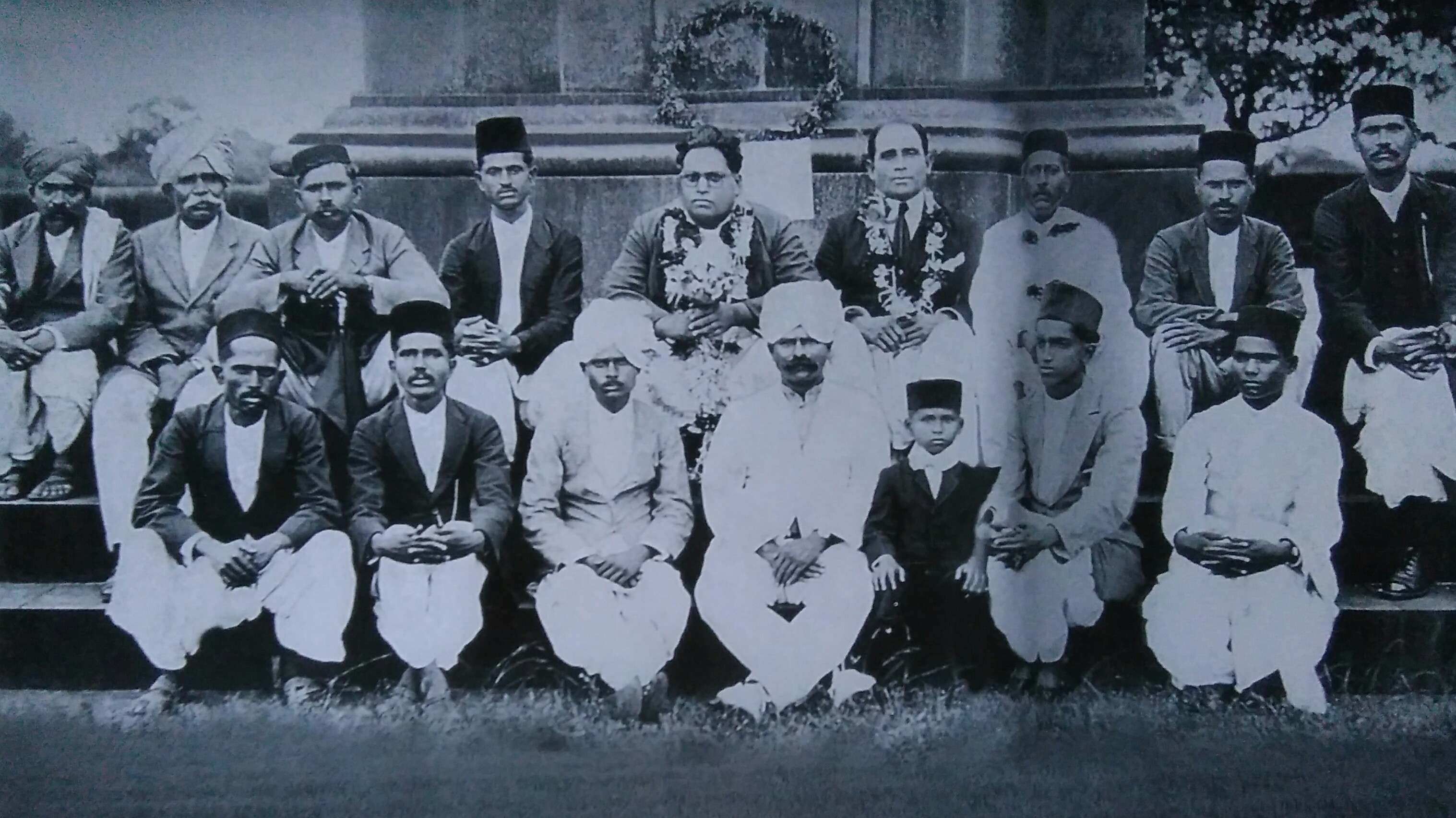 Dr. Babasaheb Ambedkar and his followers at 'Vijaystambha', Bhima-Koregaon, Tal. Haveli, Pune (Maharashtra) to salute to the brave Mahar Regiment's soldiers who won the battle. With Babasaheb Ambedkar at the centre, Shivram Janba Kamble who organised the meeting of 1 January 1927 is to his left, wearing a garland. Others in the picture, in the Ambedkar row (L to R): S. F. Barathe, B. J. Bhosle, S. B. Bhandare, J. S. Ranapise, Dr. P. G. Solanki, Shivram Janba Kamble, K. M. Sonawane and Ramchandra Krishnan Kadam. Second Row (L to R): P. Waghrnare, B. B. Jadhav, Jivappa Lingappa Aidale, S. R. Thorat, K. N. Kadam, A. S. Kamble and K. N. Sonkamble. ( Details of war)